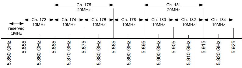 canales